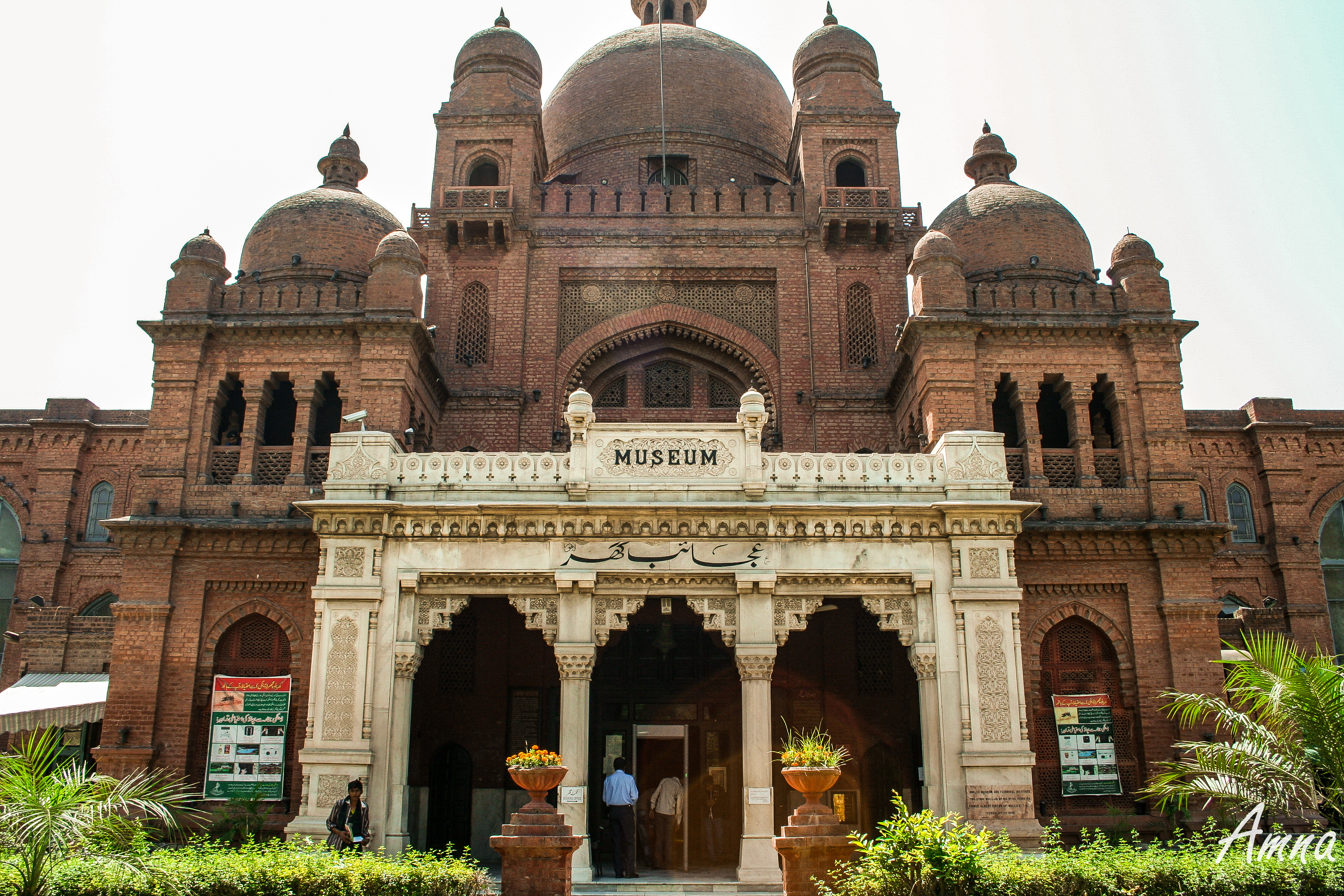 history-inside as well as outside